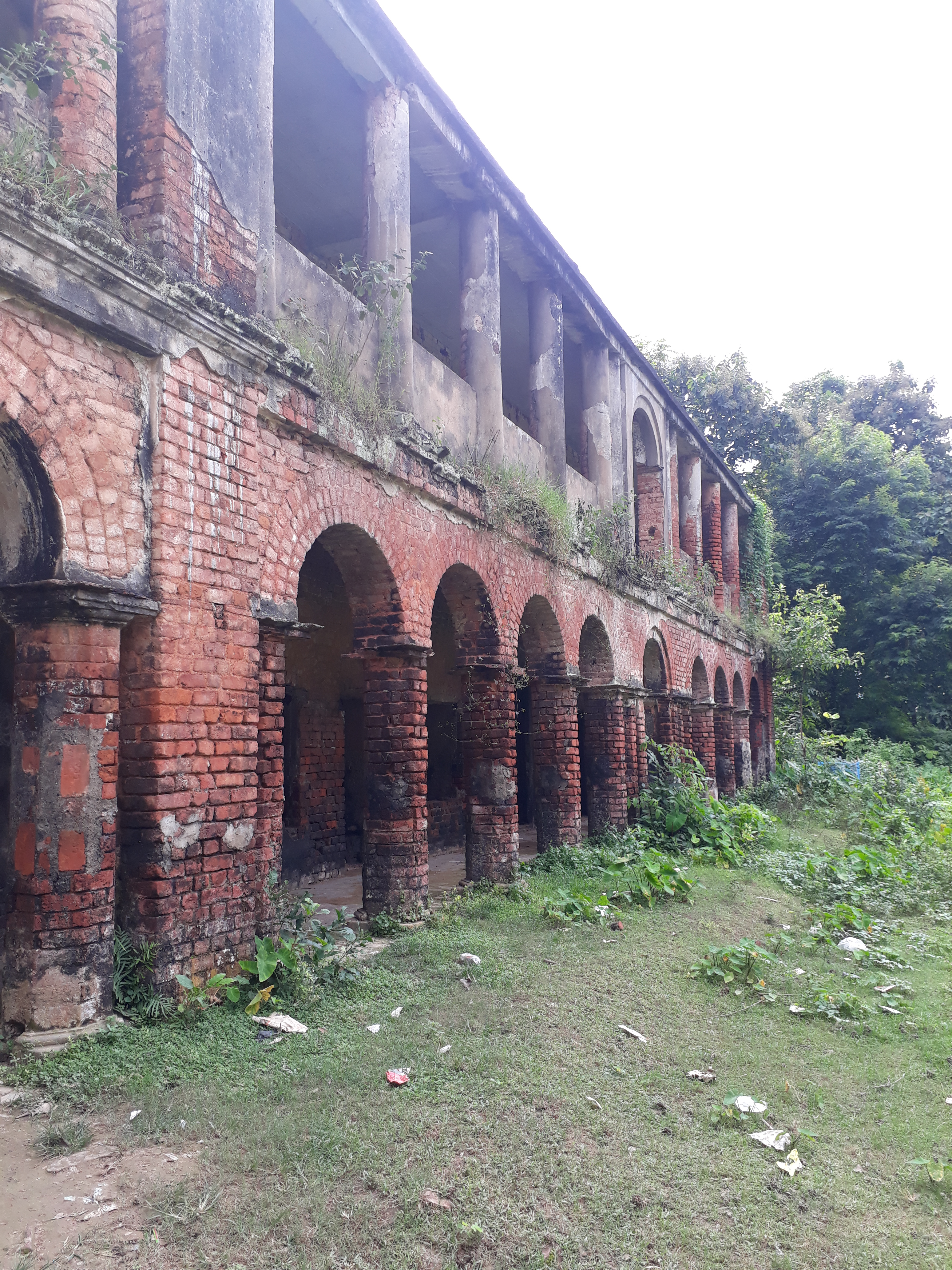 Neel (Indigo) Kuthi at Mongalganj, near Bangaon, North 24 Parganas.